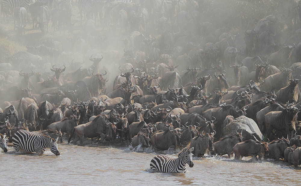 The air was full of lung-choking dust which threatened to blot out the Sun like some demonic thunderstorm. The drumming of thousands of hooves and the low-pitched grunting of countless Gnu provided the sound score to a scene that could compete with any Hollywood epic -The Greatest Migration on Earth had arrived on the bank of the Mara River!